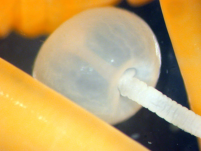 Pomphorhynchus from Bluefish (Pomatomus saltatrix)